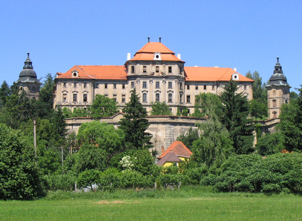 Convent in Chotěšov, Czech Republic.